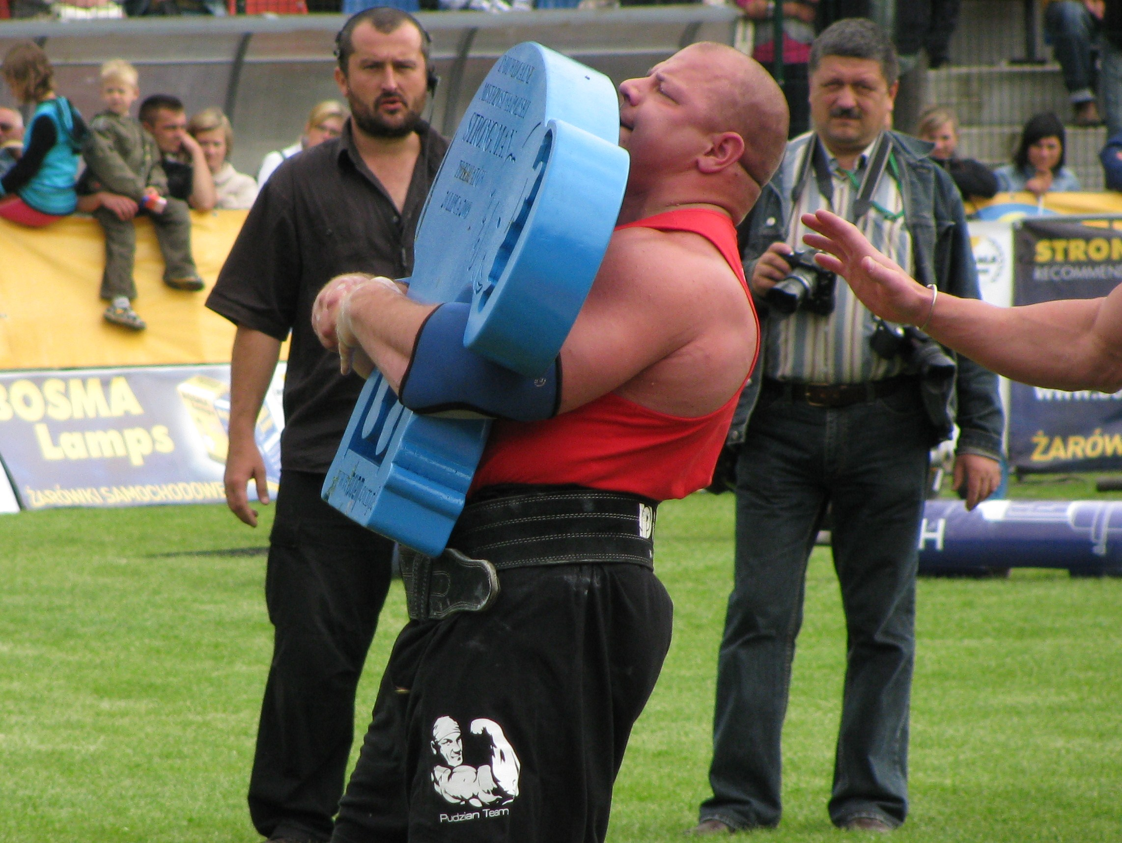 Tomasz Kowal - a strength athlete from Poland & 230 kg.